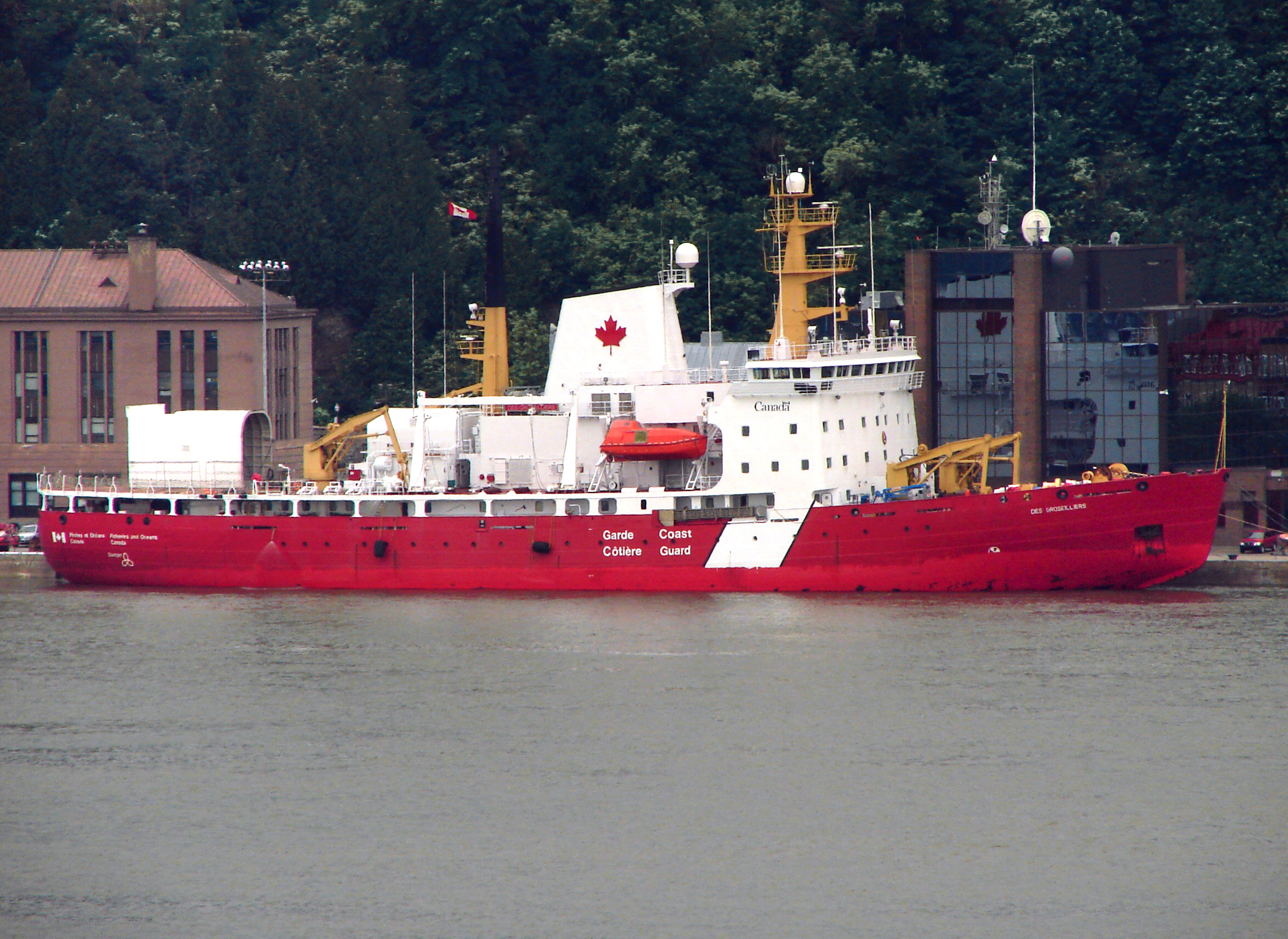 This boat is the Canadian Coast Guard Ship Des Groseilliers, an icebreaker in the Canadian Coast Guard. IMO Number: 8006385 MMSI Number: 316072000 Callsign: CGDX Length: 98 m Beam: 20 m